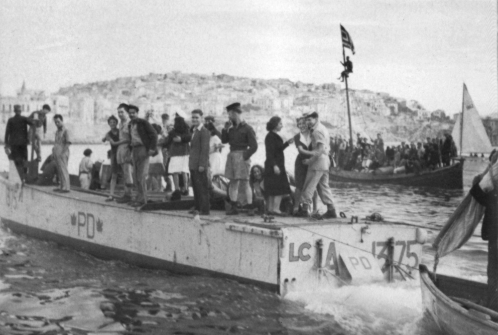 [Members of] R[oyal] C[anadian] N[avy during] invasion and liberation of Greece, Oct. 1944 (Copy negative) PA-11633890 Copyright: Expired [1]